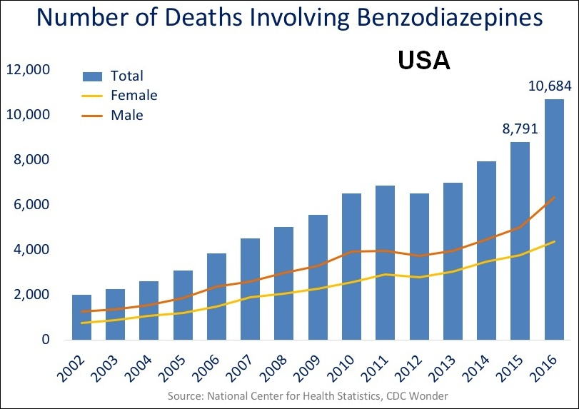 "National Overdose Deaths—Number of Deaths Involving Benzodiazepines. The figure above is a bar chart showing the total number of U.S. overdose deaths involving benzodiazepines from 2002 to 2016. The chart is overlayed by a line graph showing the number of deaths of females and males. From 2002 to 2016 there was a 8-fold increase in the total number of deaths."